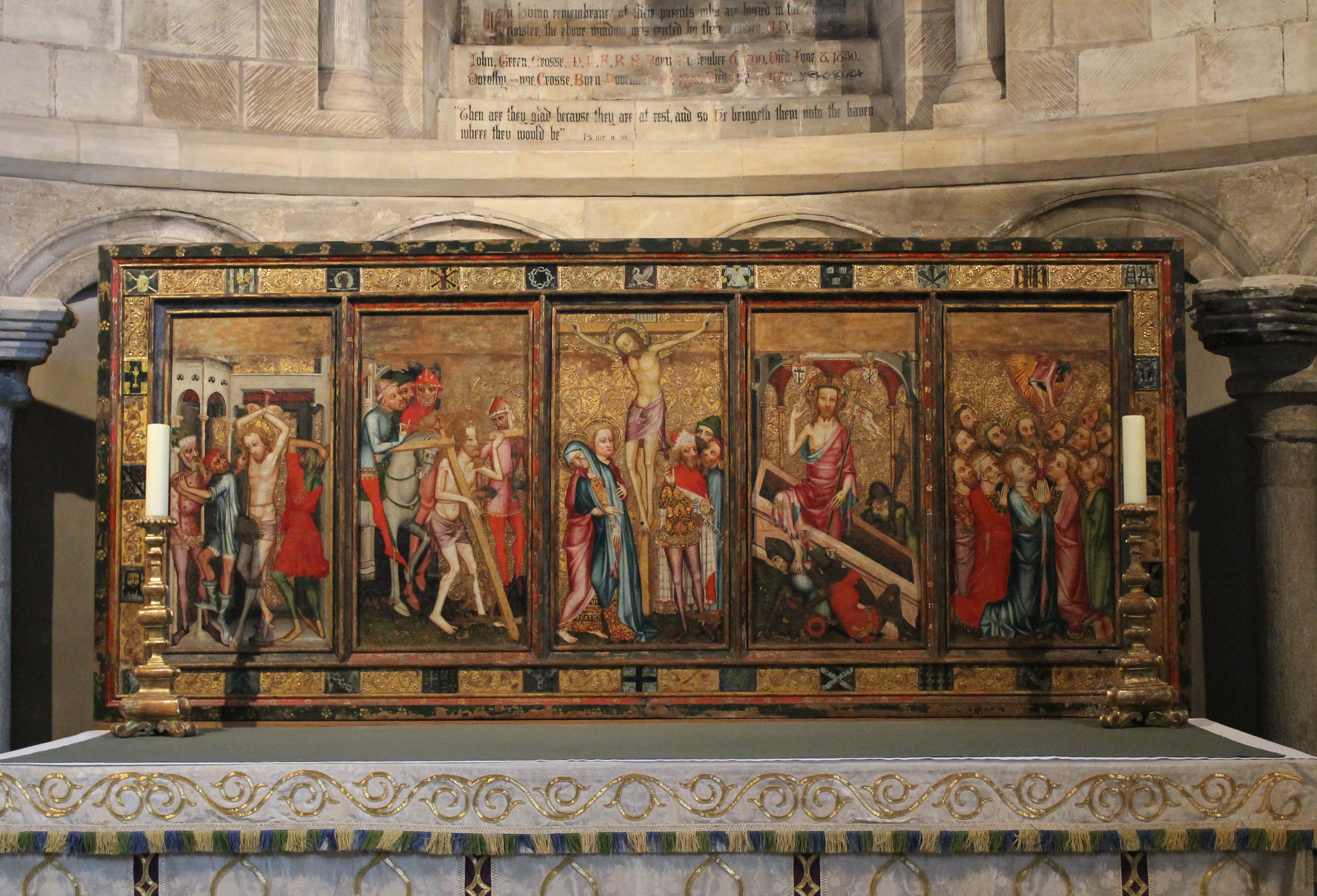 The Despenser Retable is an altarpiece, dating back to late 14th century. Probably commissioned by Henry Despenser, Bishop of Norwich (1369-1406). The five panels depict the death and resurrection of Christ.